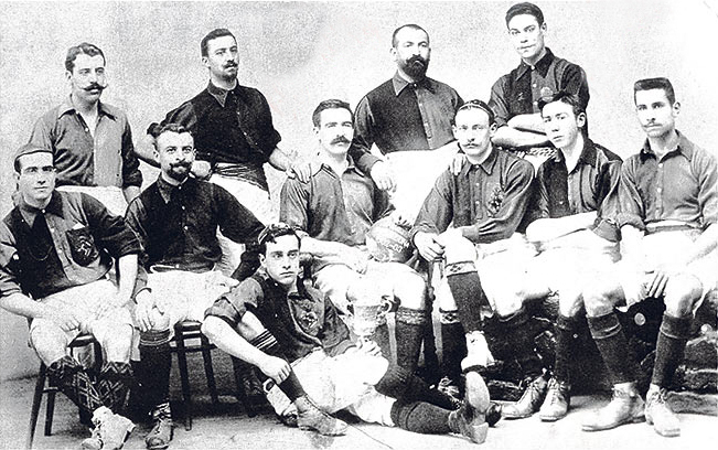 A FC Barcelona football squad.